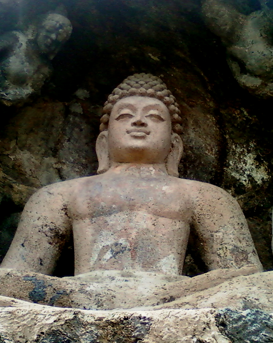 A rock cut image of Buddha at Bojjannakonda Cave Monastic ruins site near Anakapalle in Visakhapatnam district, Andhra Pradesh, India